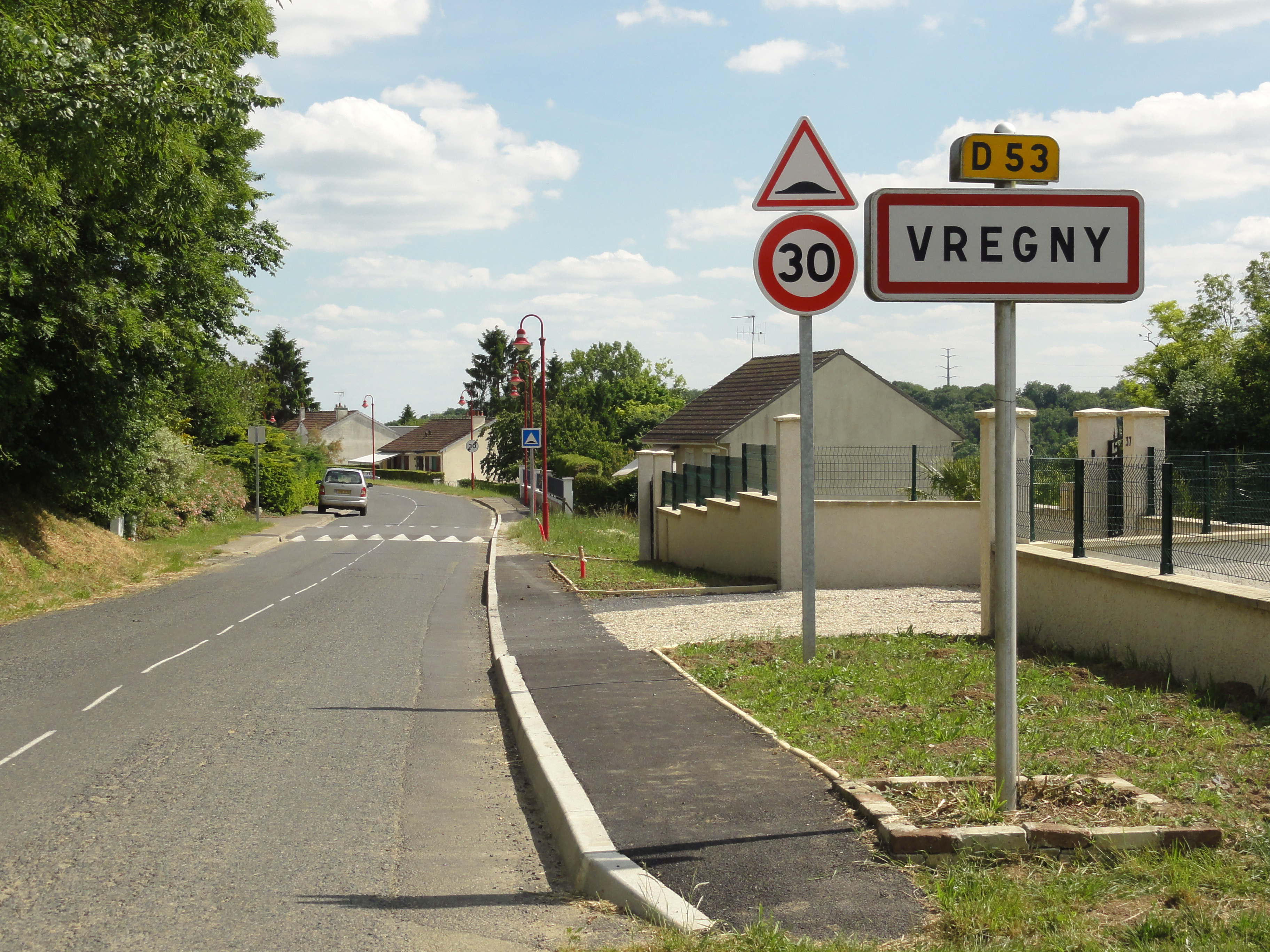 Vregny (Aisne) city limit sign